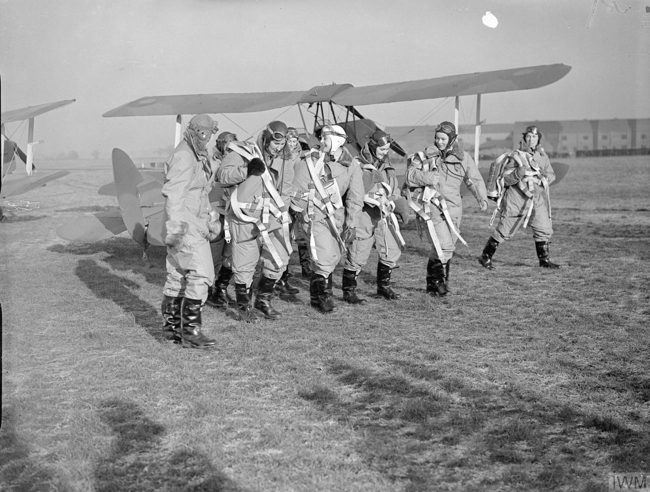 The first pilots of the ATA Womens' Section pilots walking past newly-completed De Havilland Tiger Moths awaiting delivery to their units at Hatfield, Hertfordshire. They are, (right to left): Miss Pauline Gower, Commandant of the Women's Section, Miss M Cunnison (partly obscured), Mrs Winifred Crossley, The Hon. Mrs Fairweather, Miss Mona Friedlander, Miss Joan Hughes, Mrs G Paterson and Miss Rosemary Rees.